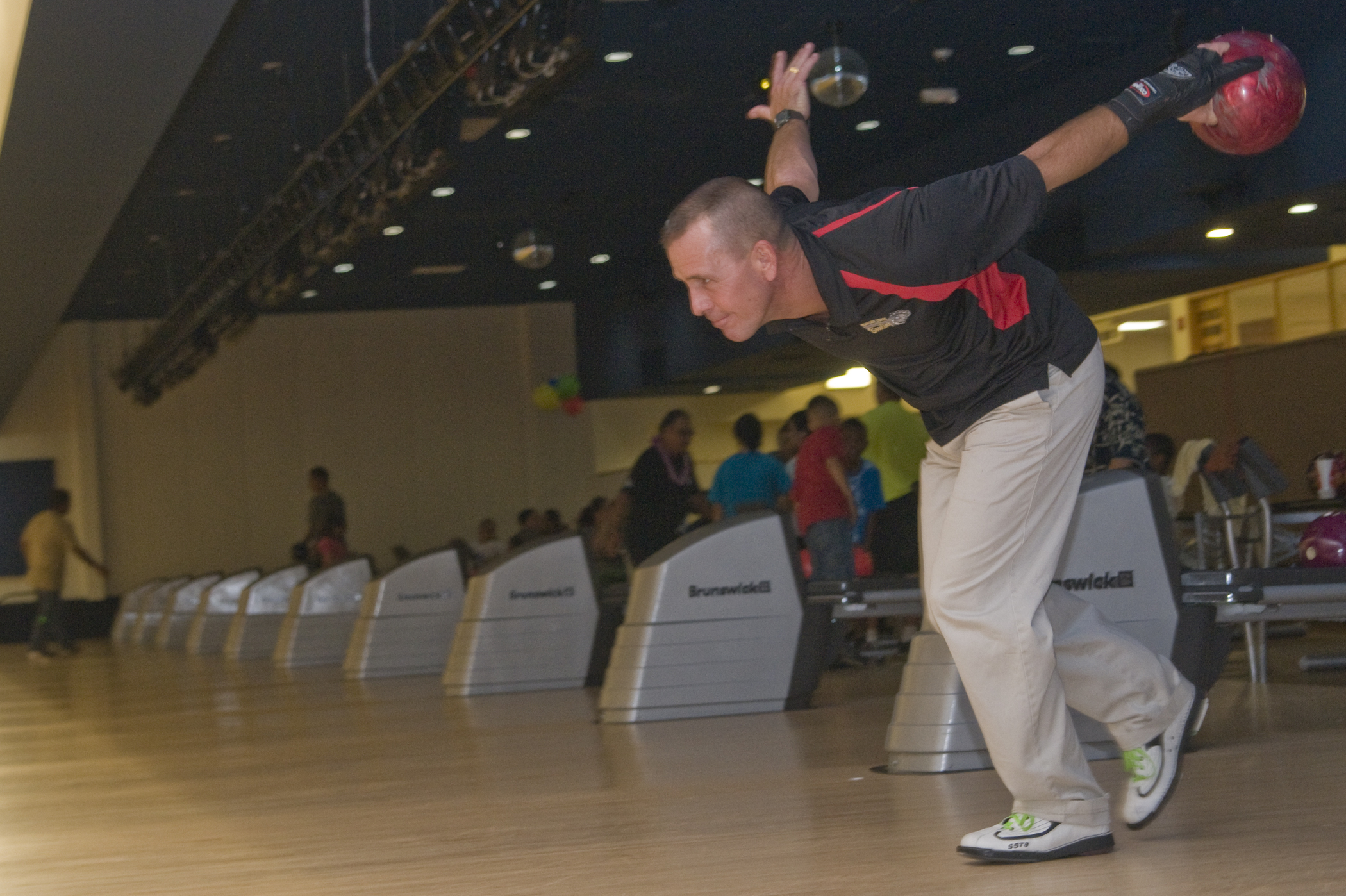 Master Gunnery Sgt. Mark Gleason, bandmaster, U.S. Marine Corps Forces, Pacific Band performs as a special exhibition bowler at K-Bay Lanes during the first anniversary of the bowling alley’s renovation, Oct. 26, 2011. (U.S. Marine Corps photo by Kristen Wong)